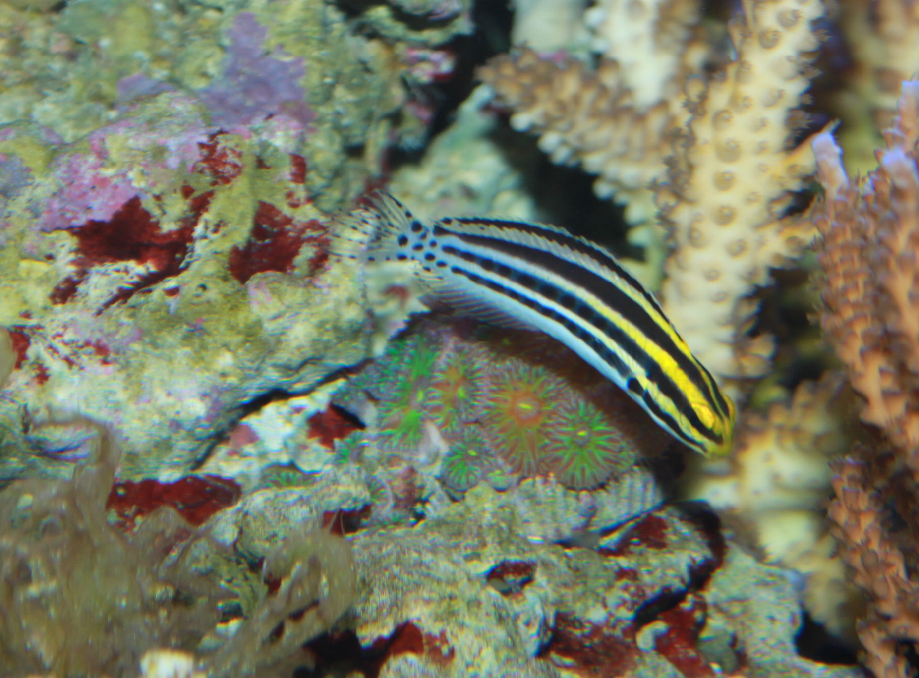 Striped poison fang blenny - Meiacanthus grammistes